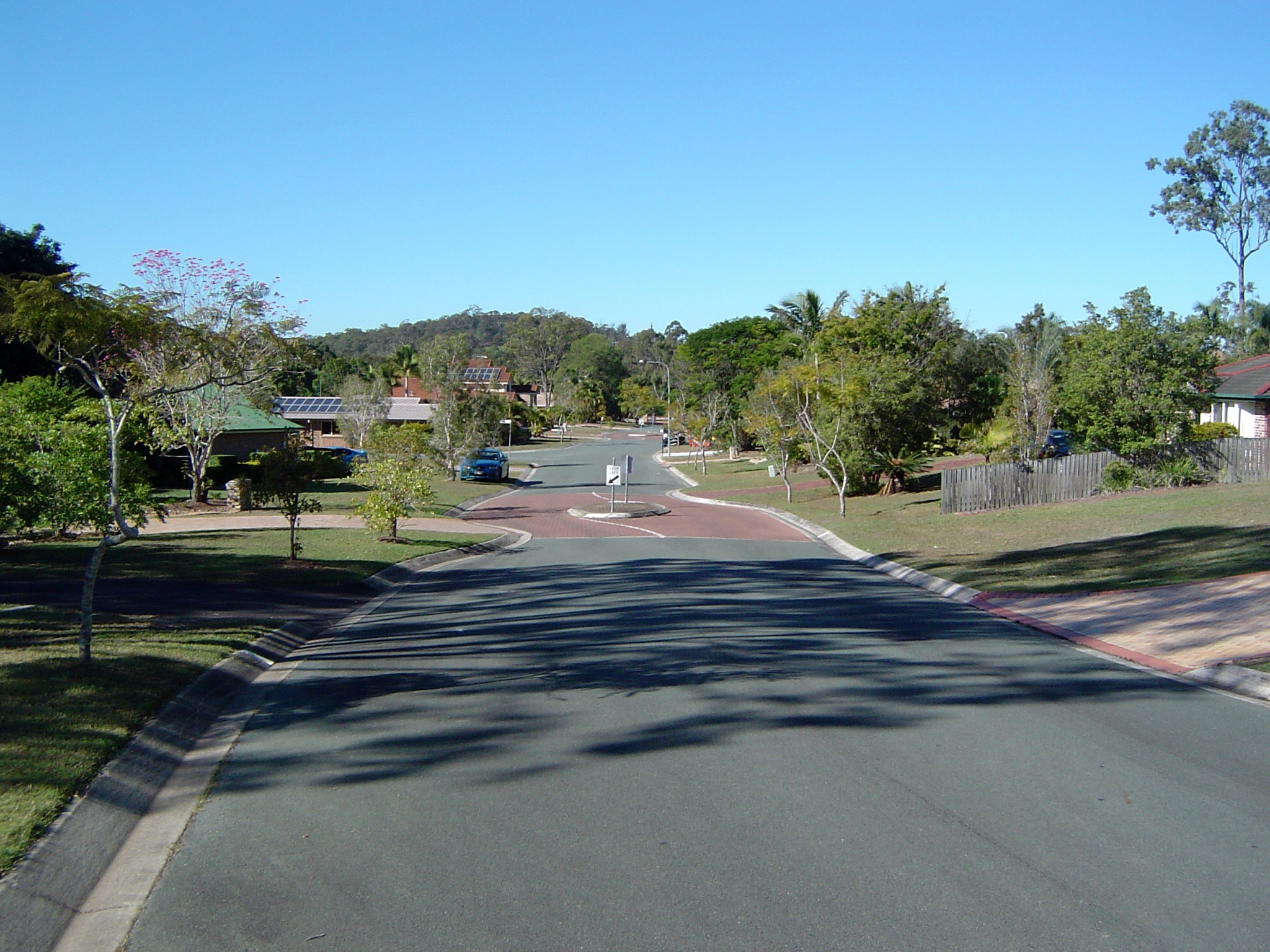 Photo of Gavin Way at Cornubi, Logan City, Queensland, Australia.